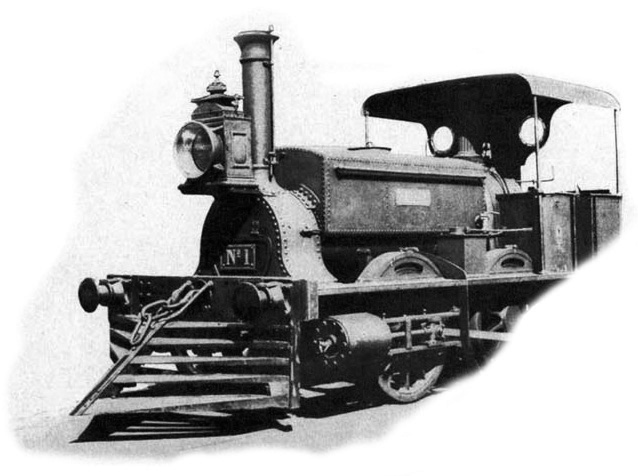 Image of the locomotive " La Porteña " showing detailed crinoline used in Ferrocarril del Oeste, in Buenos Aires, Argentina. At the end of its working live that attachment was removed.